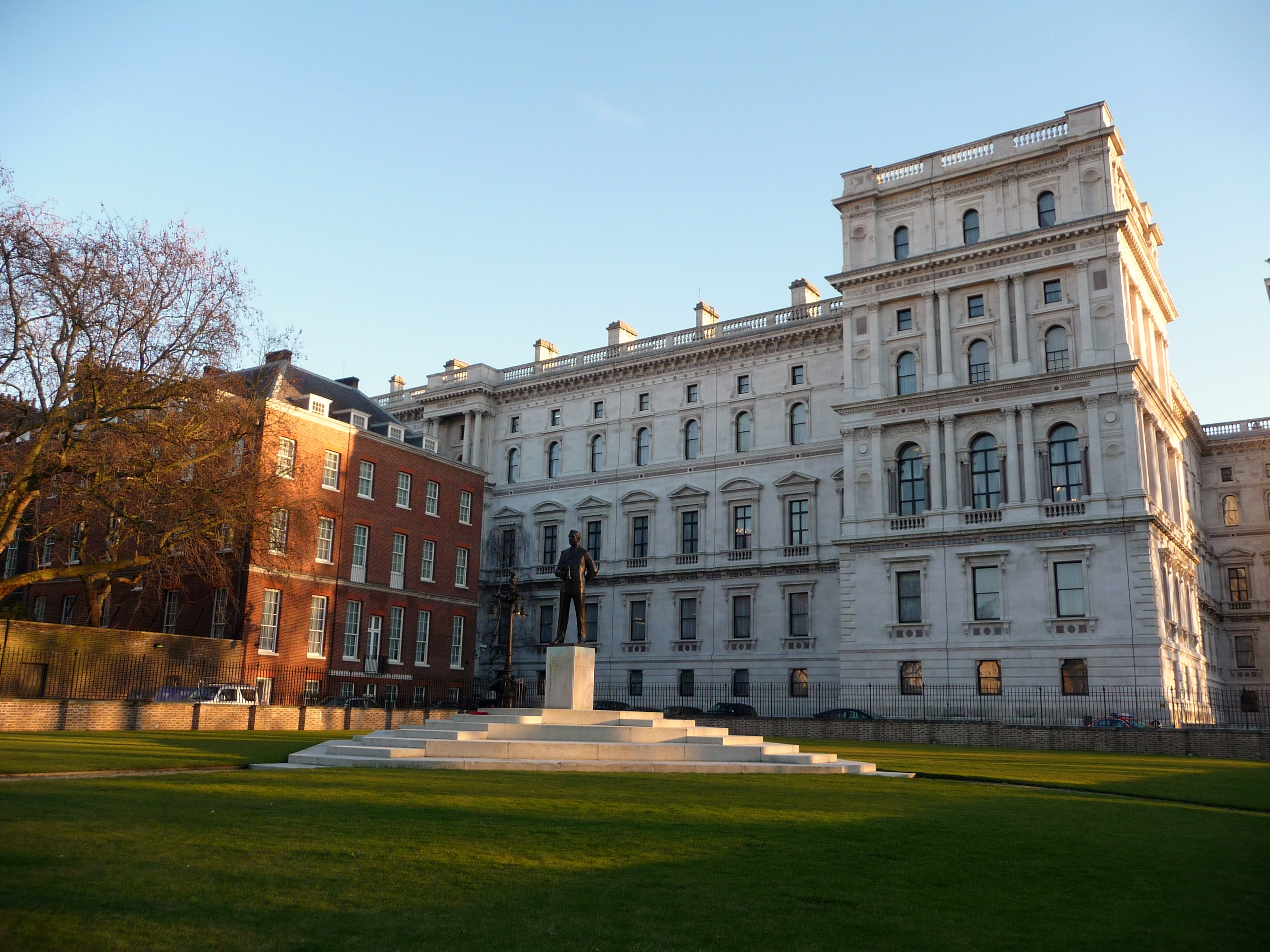 London : Westminster - Statue & Downing St Back A statue in between Downing Street and Horse Guards Parade.